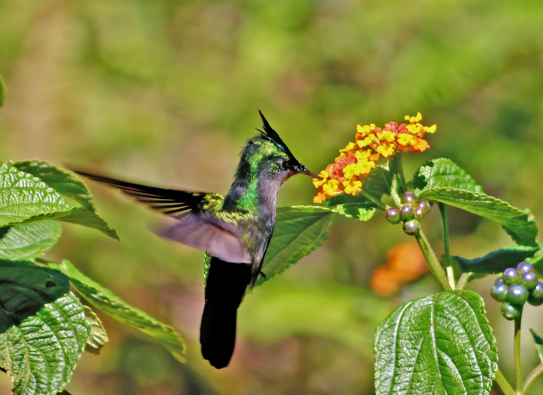 Antillean crested hummingbird (Orthorhyncus cristatus) feeding photographed in its natural habitat in the Morne Diablotins National Park in Dominica. Guide was local expert 'Dr Birdy' Bertrand Baptiste.